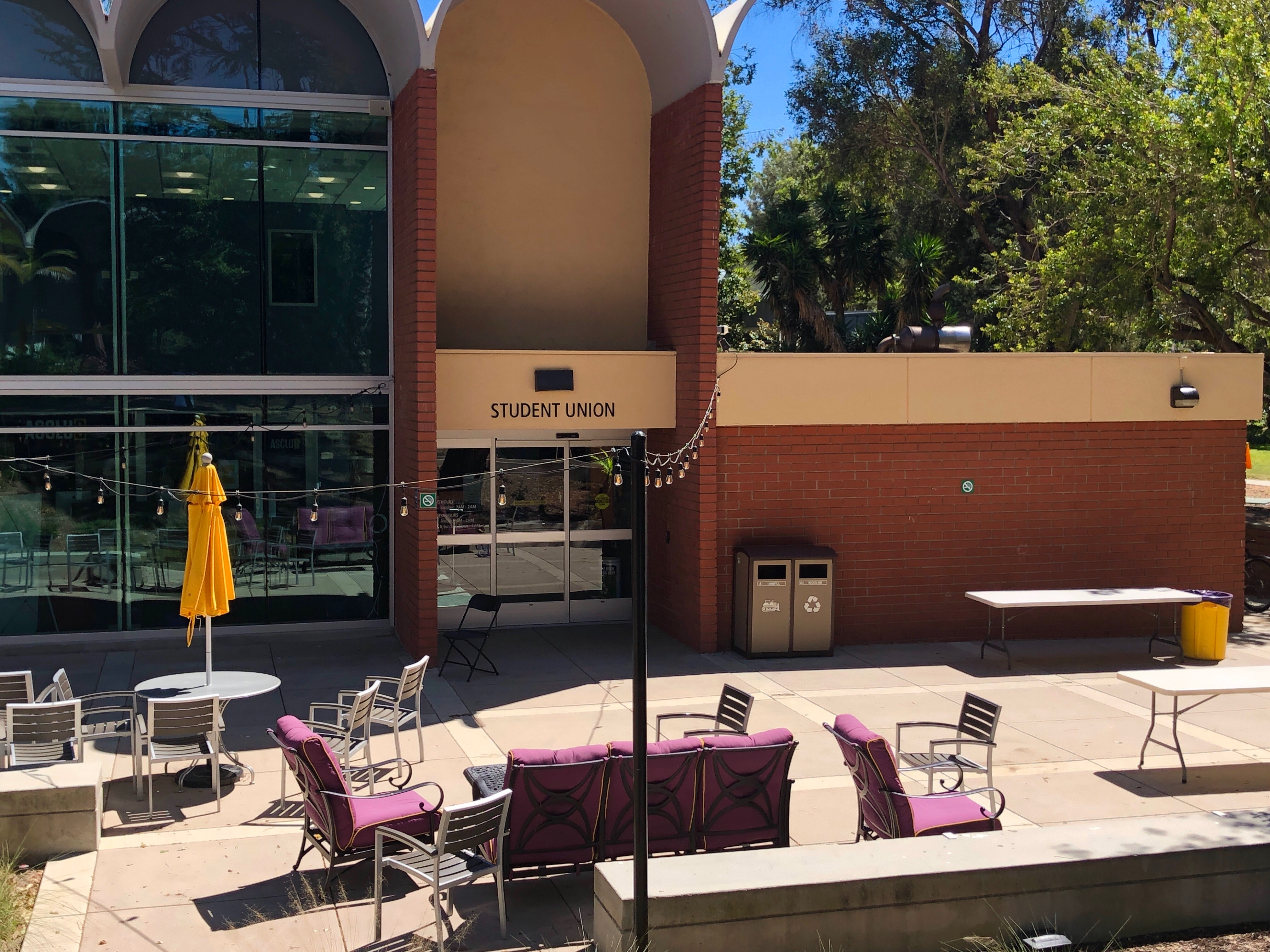 Student Union Building at California Lutheran University